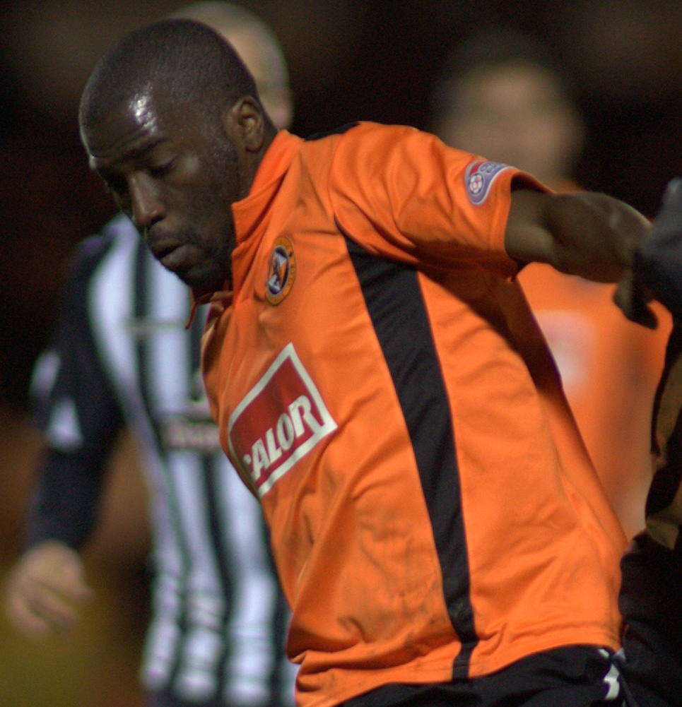 Clydesdale Bank Scottish Premier League - St Mirren vs Dundee Utd St Mirren's Stephen Thomson tussles with Dundee Utd's Morgaro Gomis during the 1-1 draw at St Mirren Park. Picture : Alasdair Middleton/Universal News & Sport (Scotland) Wednesday 26th January 2011 Universal News and Sport (Europe) All pictures must be credited to 0844 884 51 22